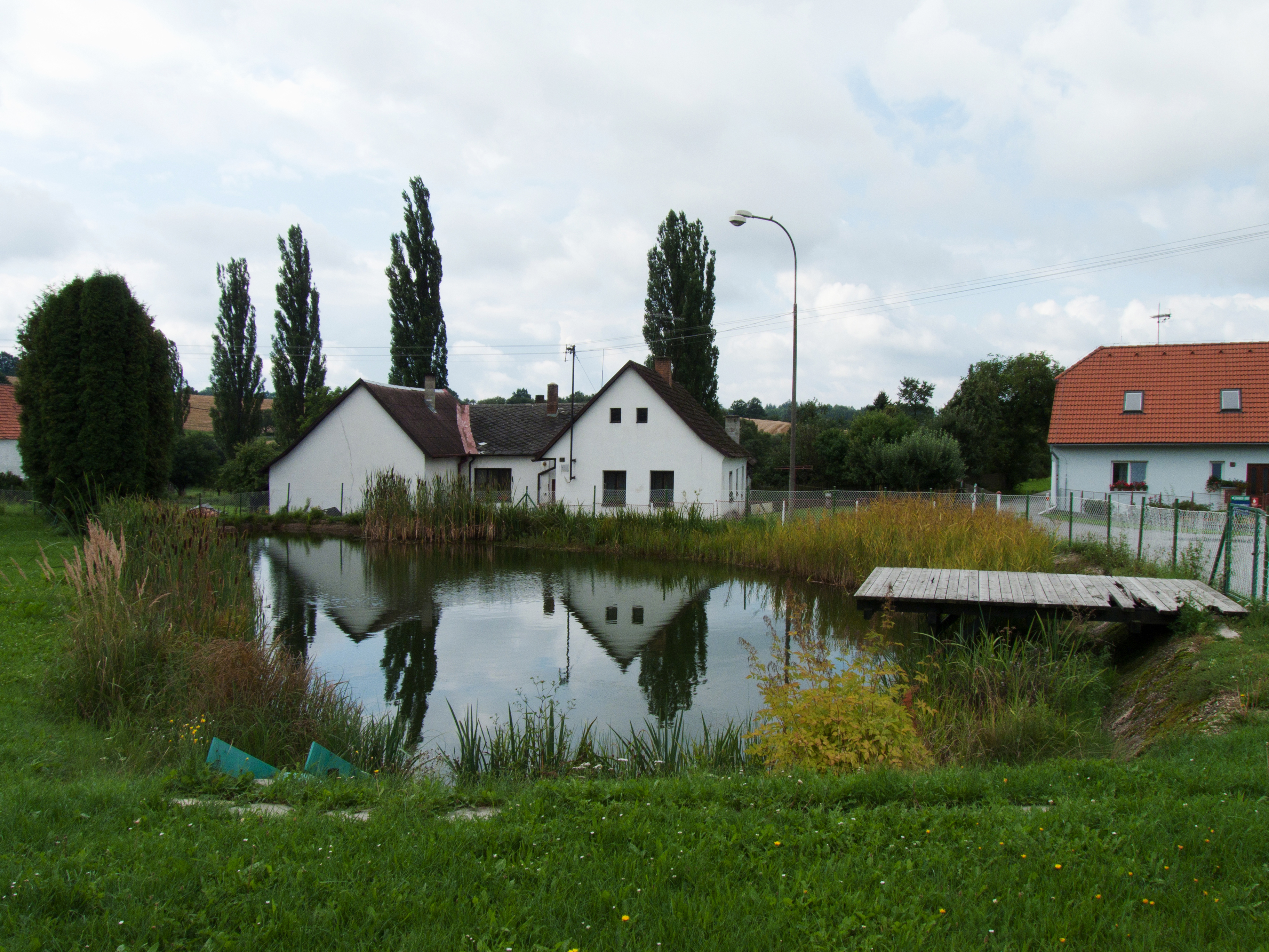 View of the municipal authority building over the pond in the village of Pohnánec, Tábor District, Czech Republic